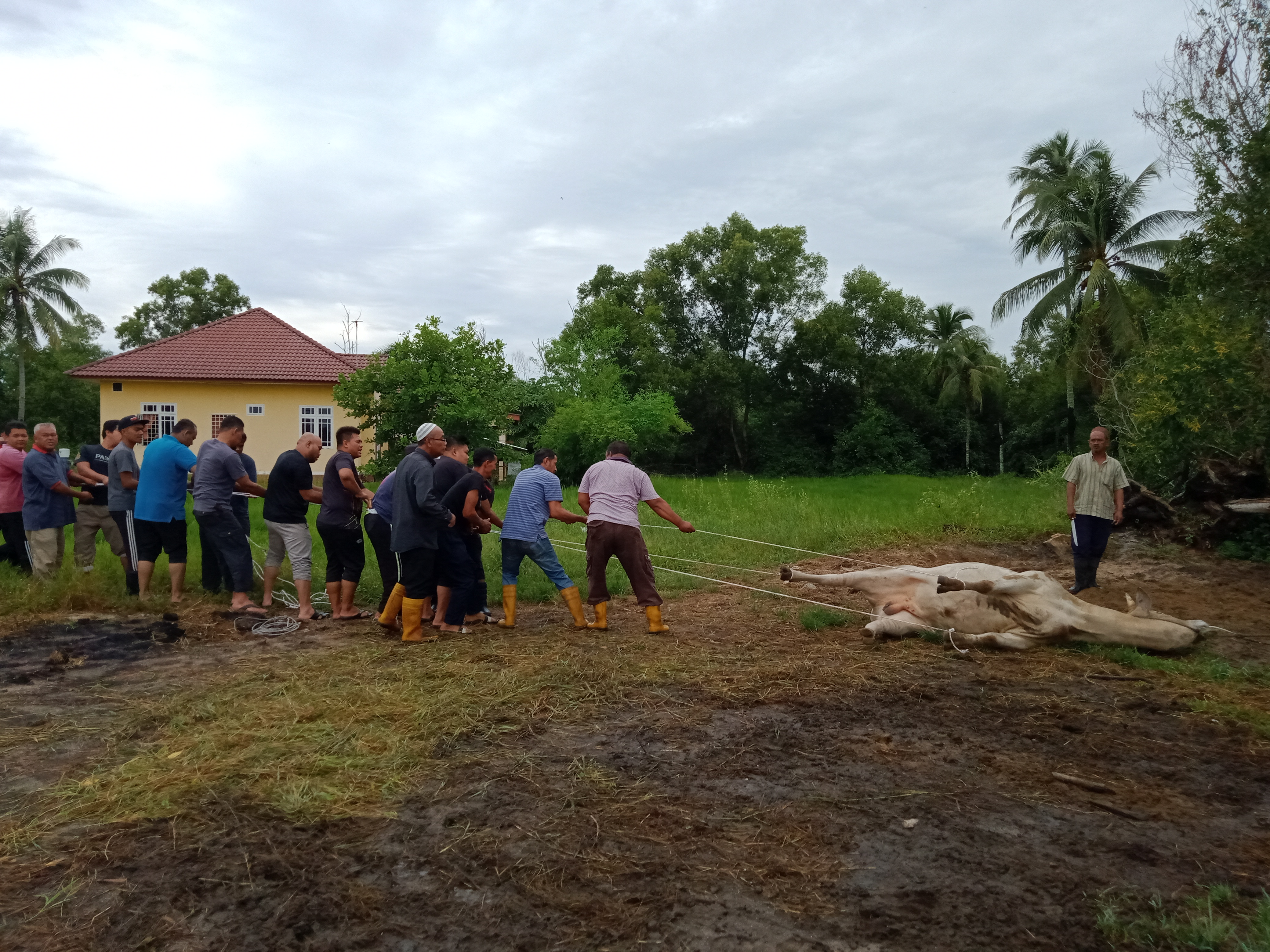 Sacrifice (Hebrew: קָרְבָּן) or qurban (Arabic: قربان) is the slaughter of certain animals on the Day of Aidiladha